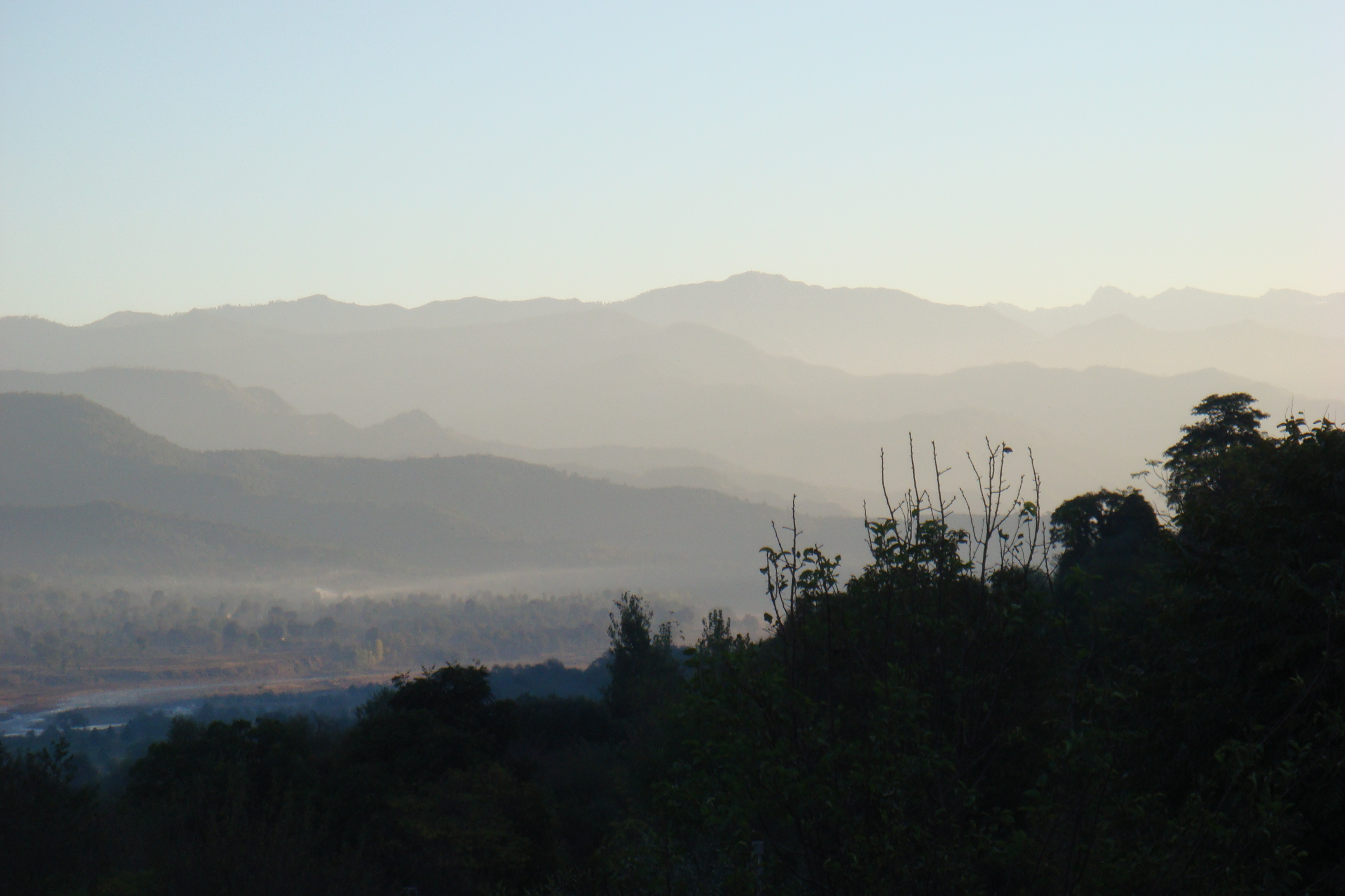 The sunrising across maindla and other areas of poonch, AJK.